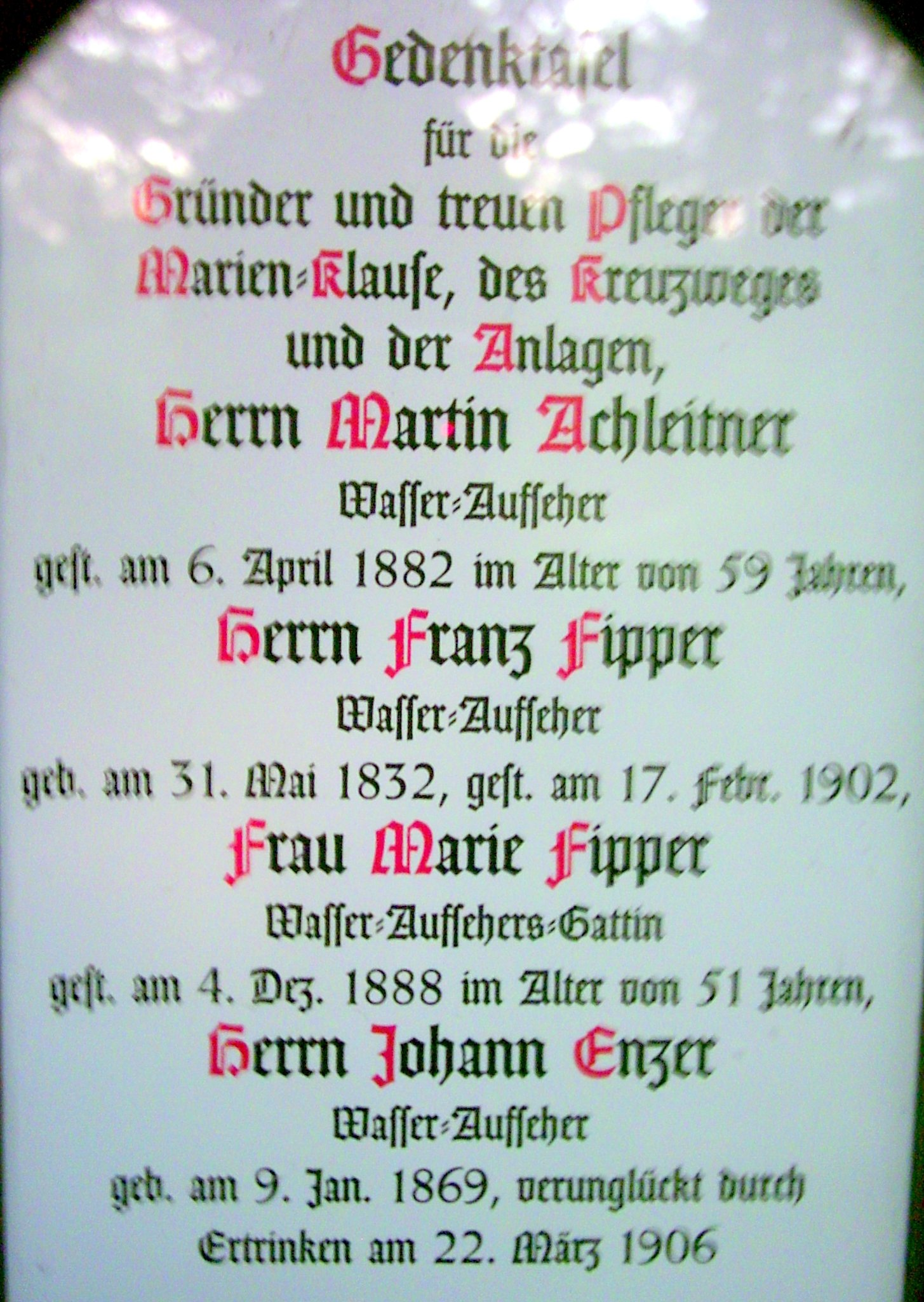 Memorial for Martin Achleitner at Marienklause, Munich, Bavaria, Germany